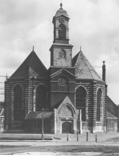 Nieuwkerk Dordrecht 1935